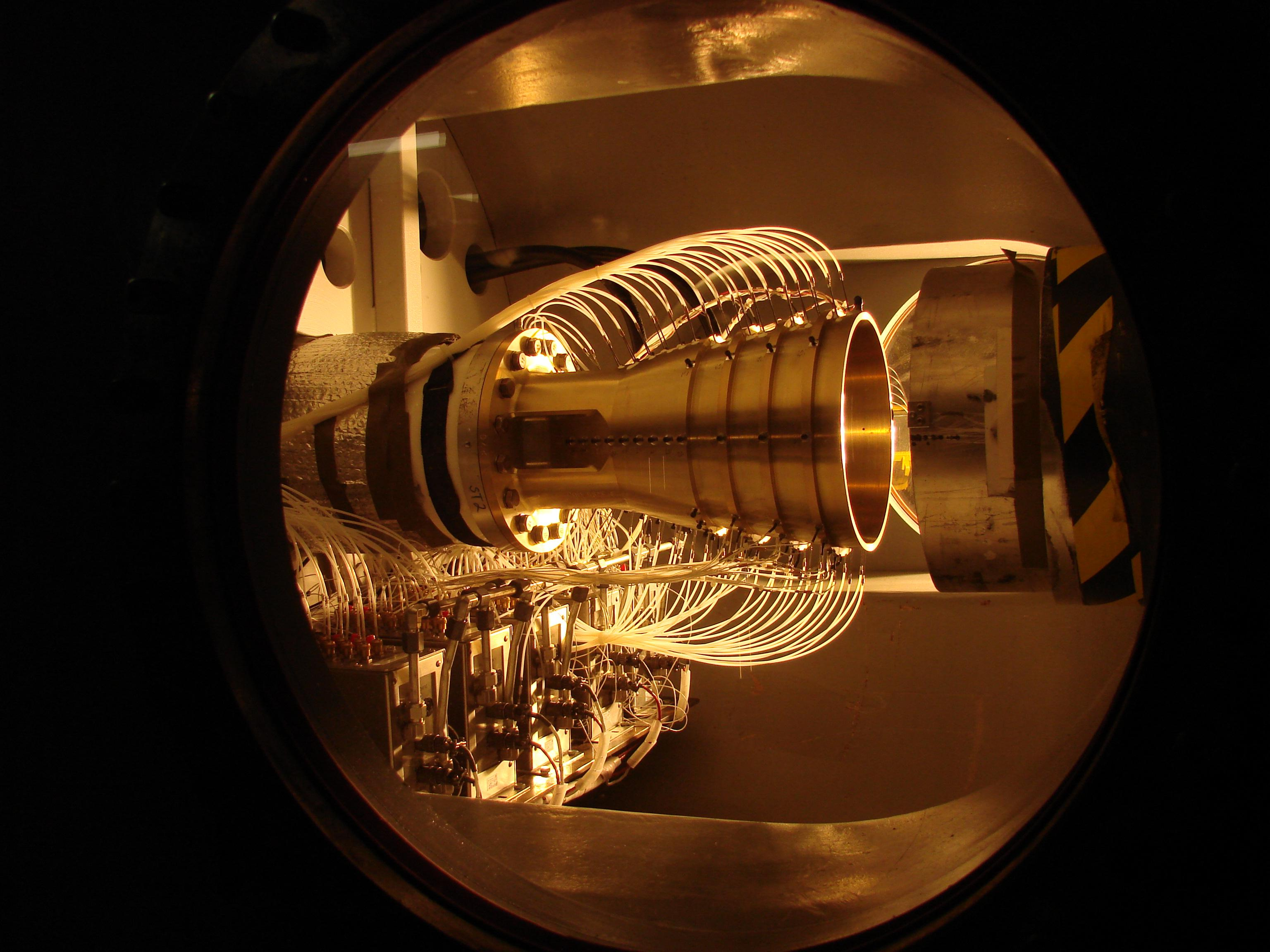 An image from a cold flow test conducted as part of the development of the J-2X rocket engine.